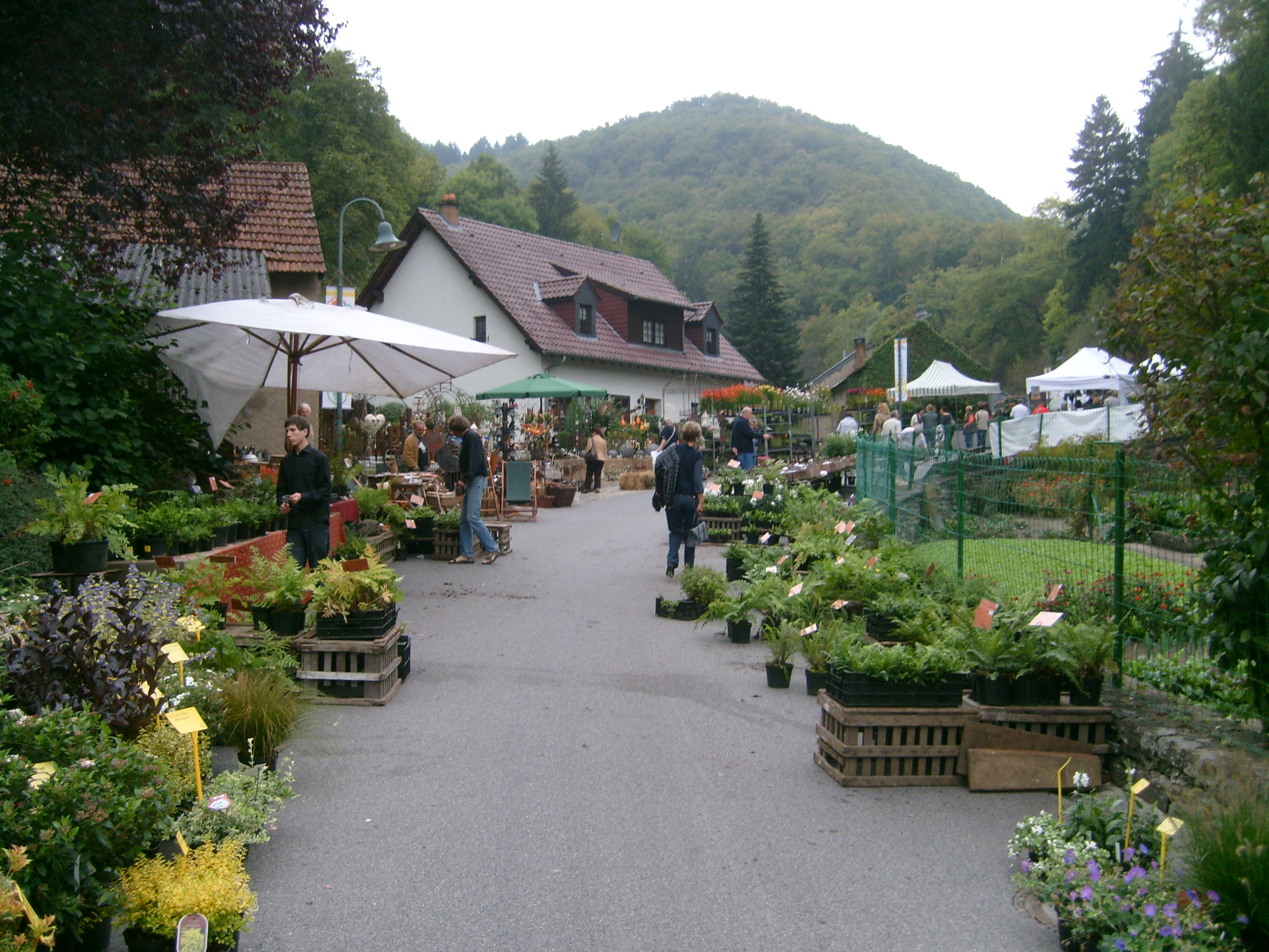 Plant fair in Stolzembourg, Luxembourg.